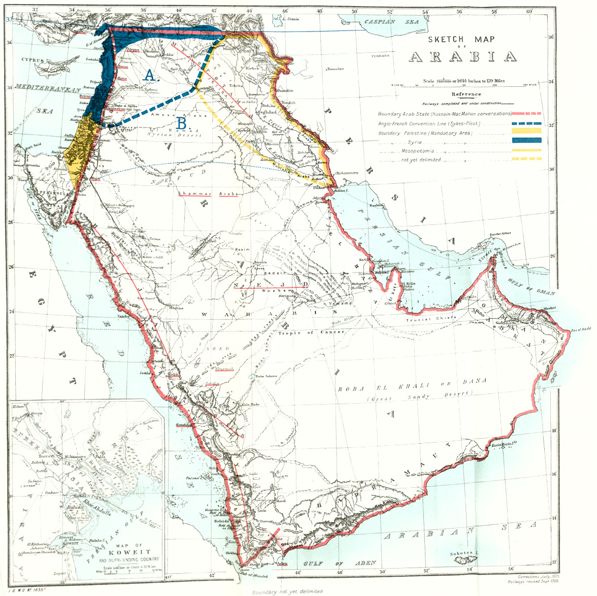 Map of Arabia appended to 1921 CAB24/120 cabinet memorandum on the proposed formation of Kingdom of Mesopotamia. Formerly part of the Ottoman Empire, the region was entrusted to Britain under a League of Nations mandate.